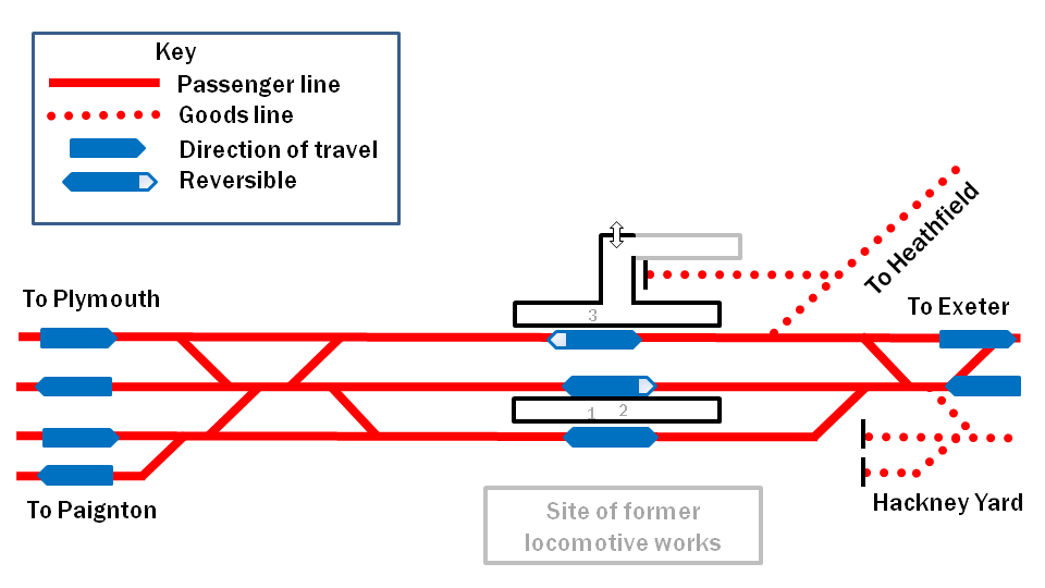 A diagram of the track layout at Newton Abbot station, Devon, England. Not to scale.